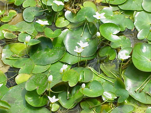 Species: Nymphoides indica Family: Menyanthaceae Image No. 2